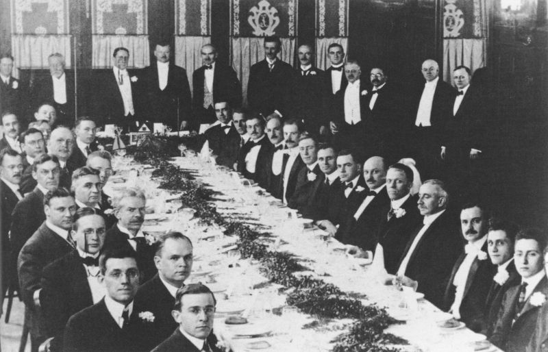 Second banquet meeting of the Institute of Radio Engineers (now part of the Institute of Electrical and Electronics Engineers) at Luchow's in New York City, April 24, 1915. Many prominent figures in the development of radio attended. Nikola Tesla is standing at back, seventh from the right.